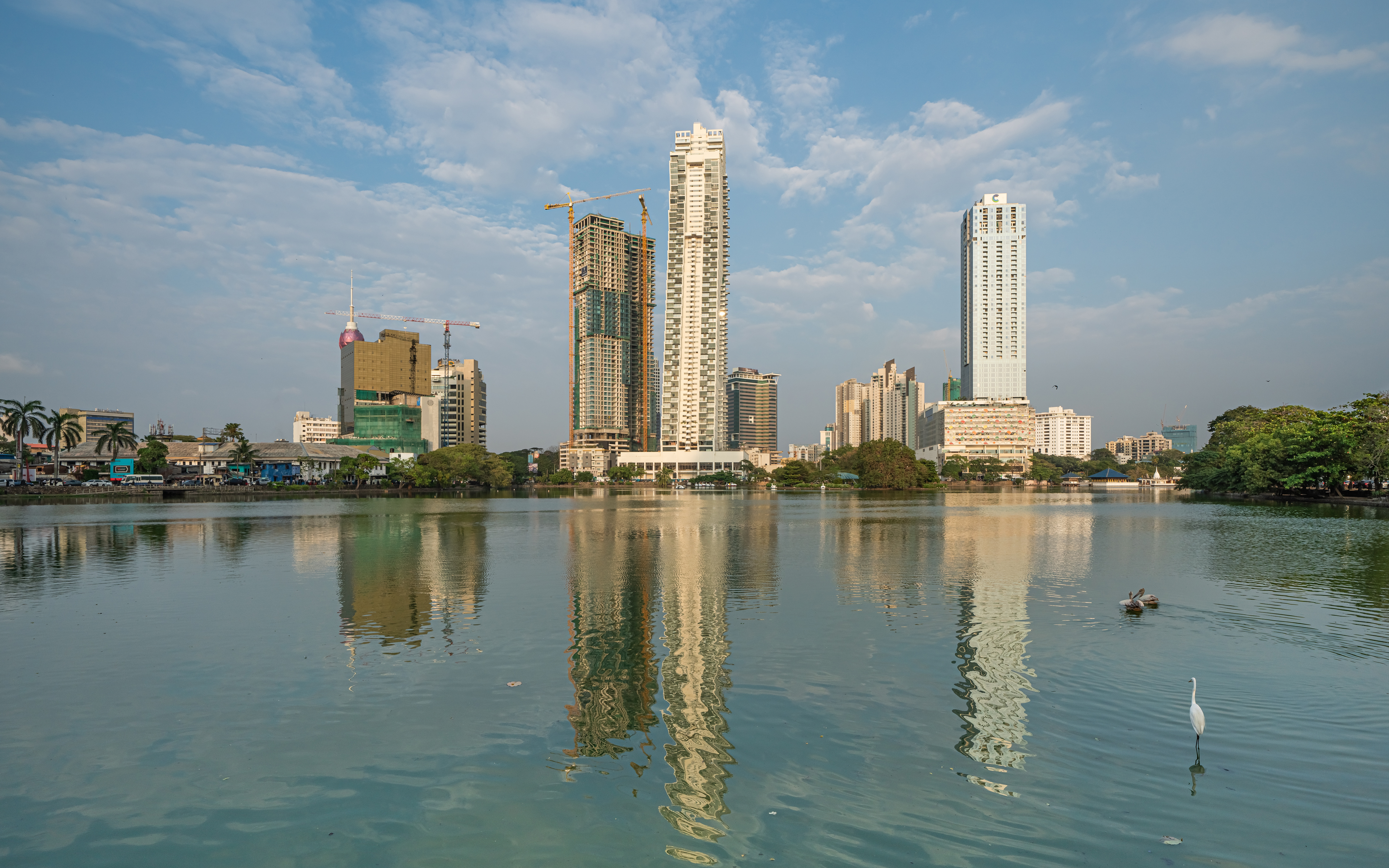 Southwest Beira Lake in Colombo, Sri Lanka